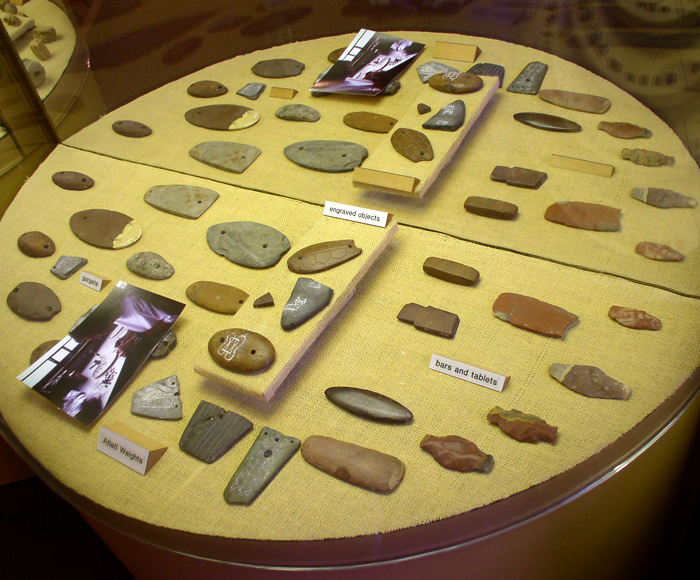 Gorgets and Atlatl weights found at the Poverty Point site.